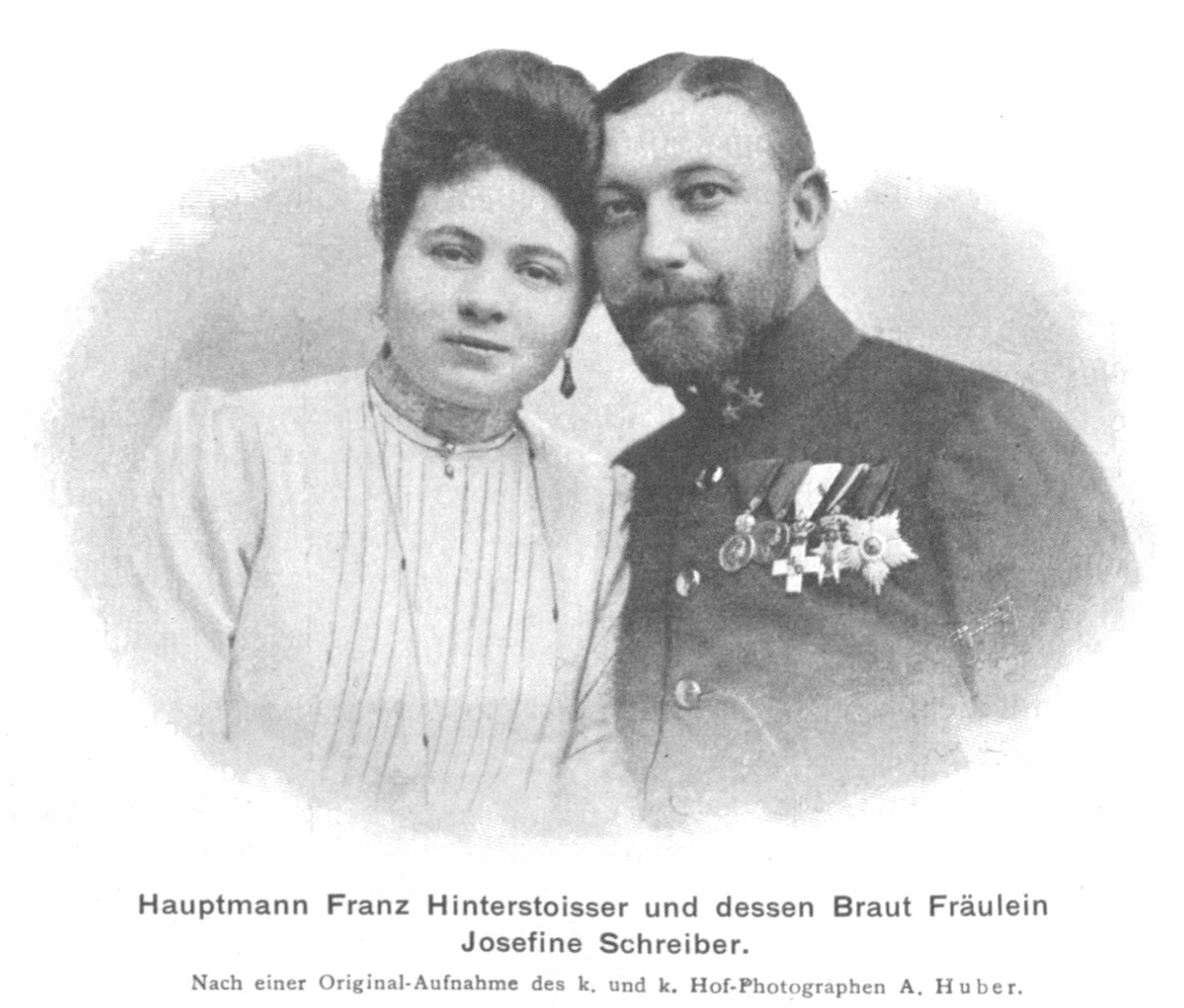 Portrait of Franz Hinterstoisser (1863-1933), Austrian officer and aviation pioneer, with his bride Josefine Schreiber.